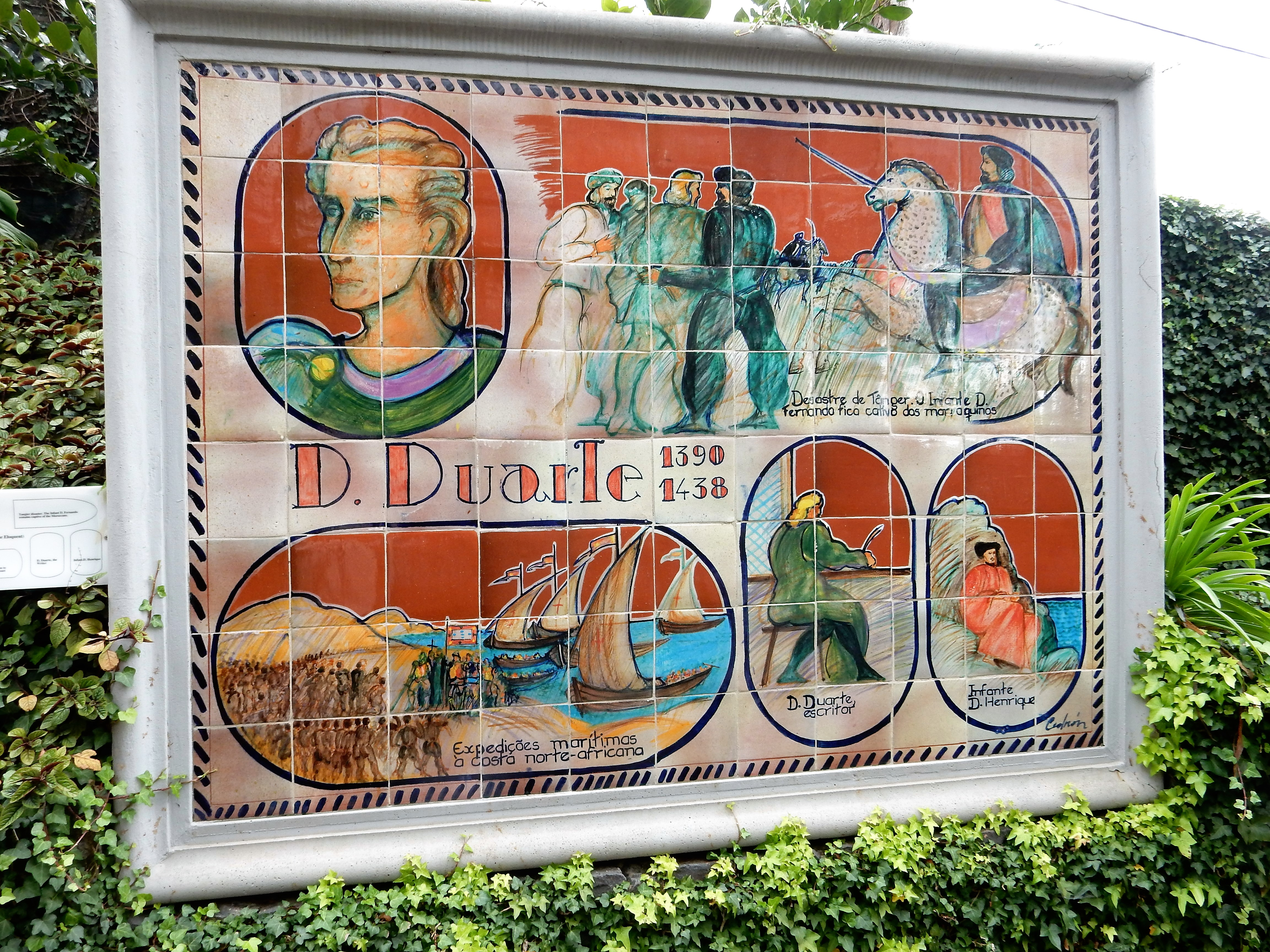 Azulejo Edward, King of Portugal, at Tropical Garden Monte Palace, Funchal, Madeira